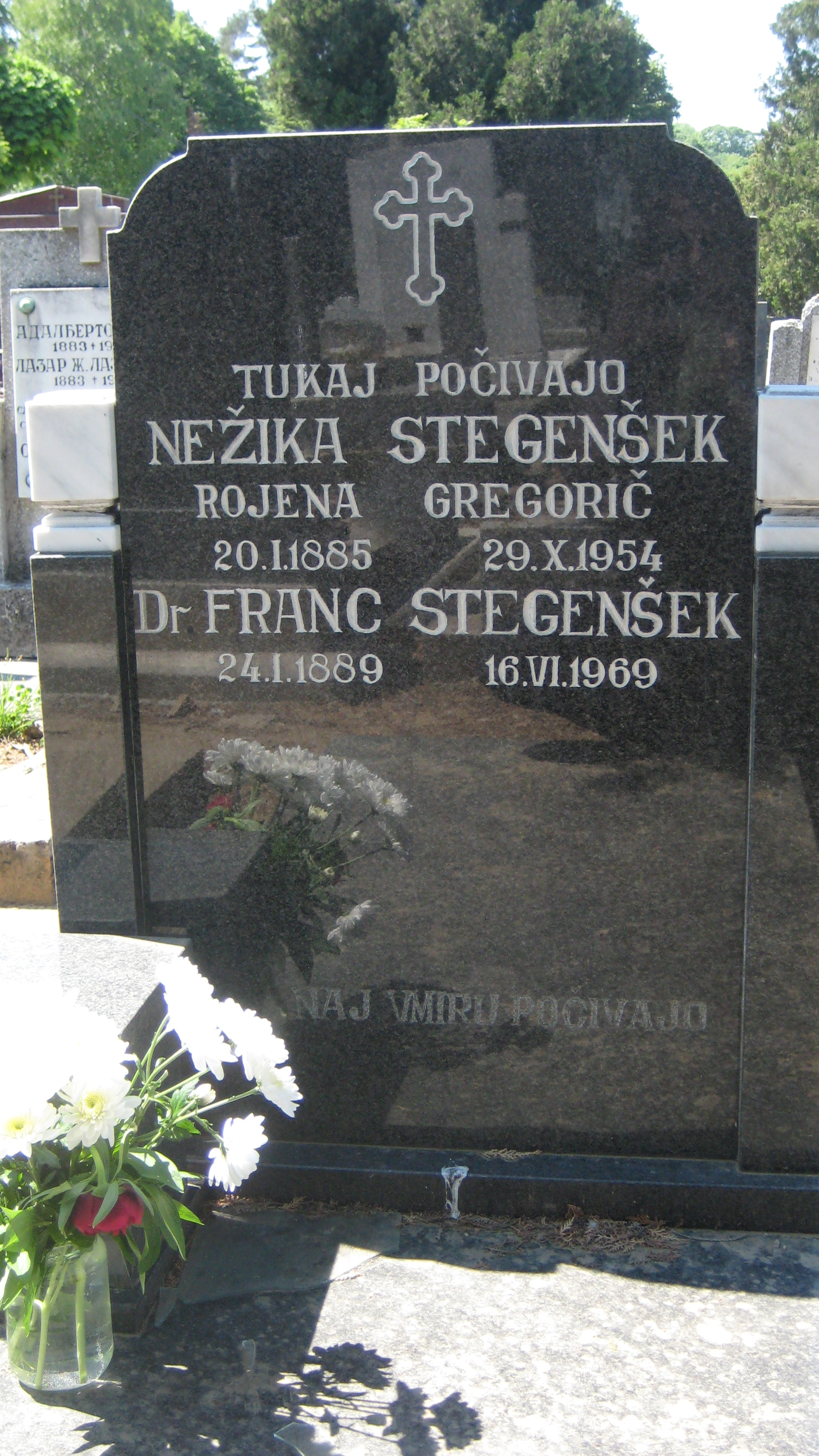 Dr. Franc Stegenšek and his wife are burried in Topčider cemetery (Belgrade, Serbia).